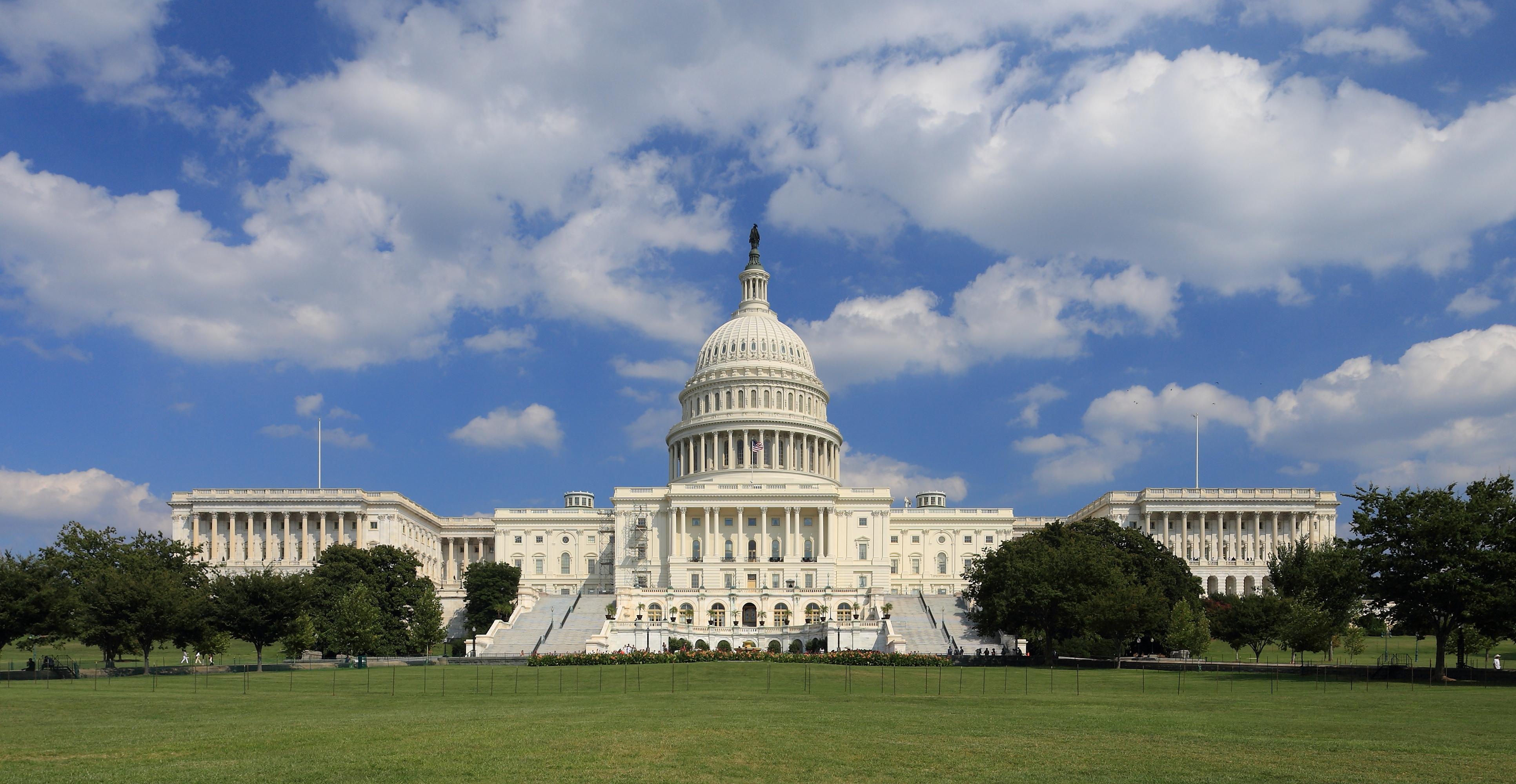 US Capitol, west side